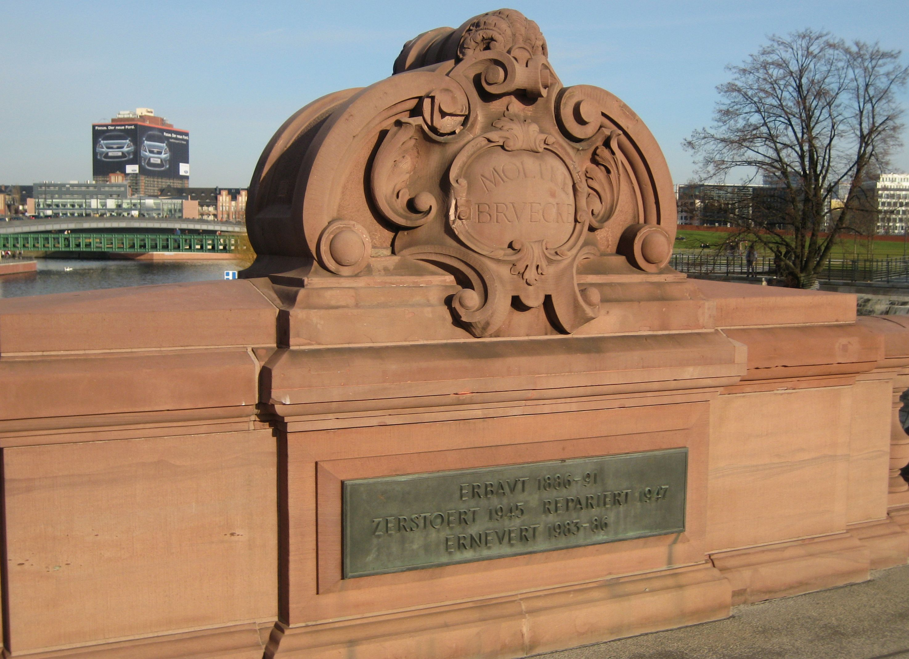 Moltkebrücke in Berlin, ornament with name of the bridge and memorial plate on its construction, destruction (in World War II) and reconstruction